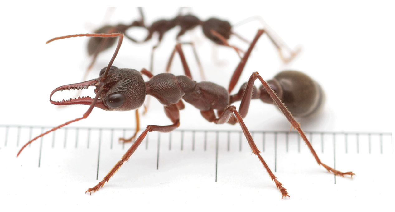 The nocturnal bull ant, Myrmecia pyriformis. Graduations are in mm.